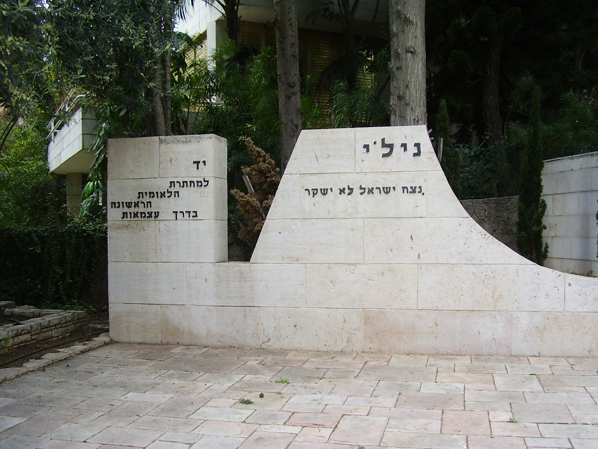 Nili garden In Ramat Gan